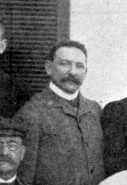 Participants of an expedition to Teneriffa, back row from left to right: Douglas, Carl Neuberg, Mascart, Gotthold Pannwitz, Arnold Durig, Piasse, Hermann von Schrötter; front row from left to right: Johannes Orth, Neuberg, Bachmann, Joseph Barcroft, Nathan Zuntz, front: Pannwitz, Carriere.